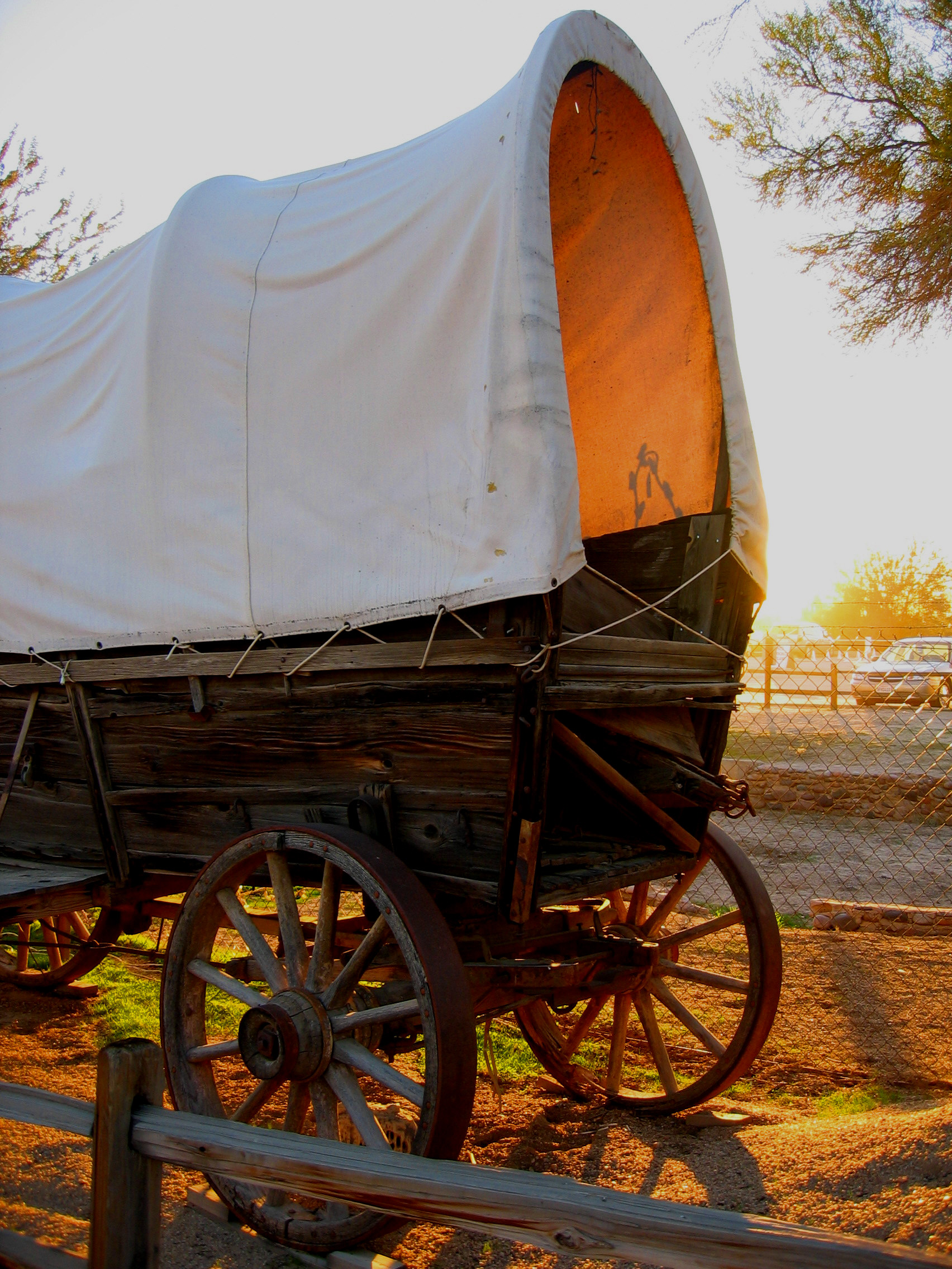 Phoenix is an old western town, settled by pioneers.